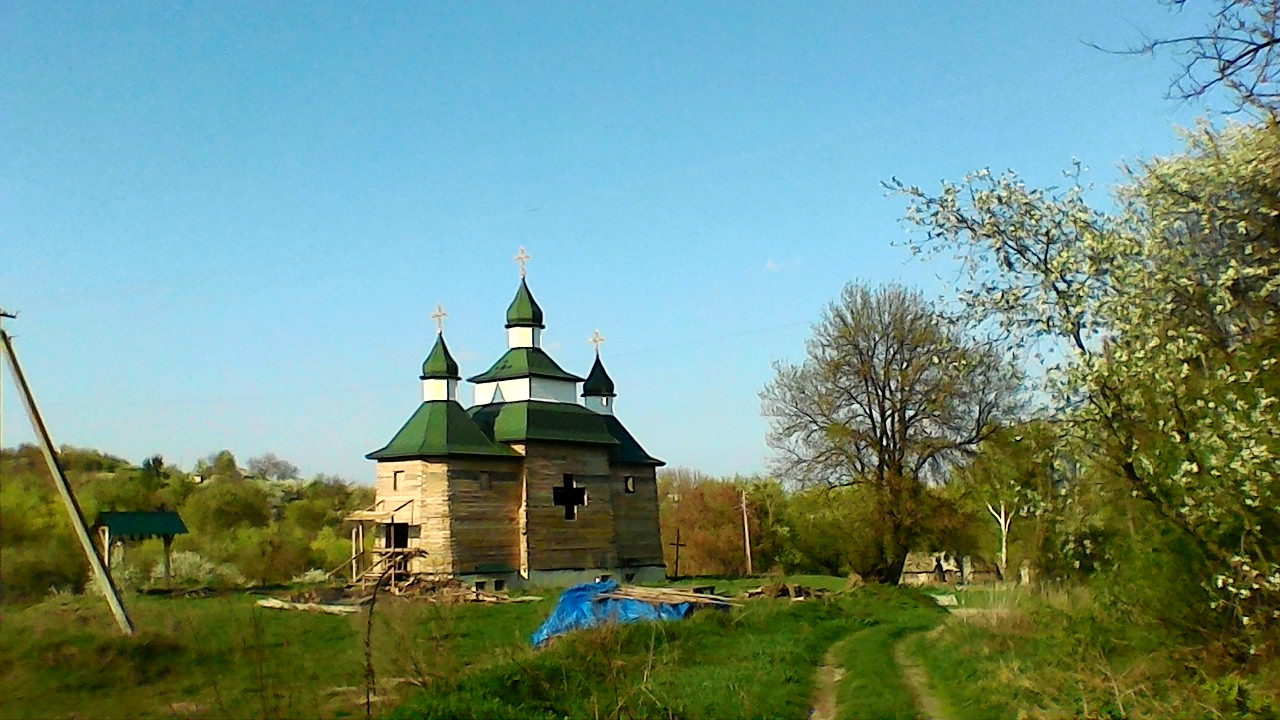 Grigirovka,Kanevskoy District, Ukraine